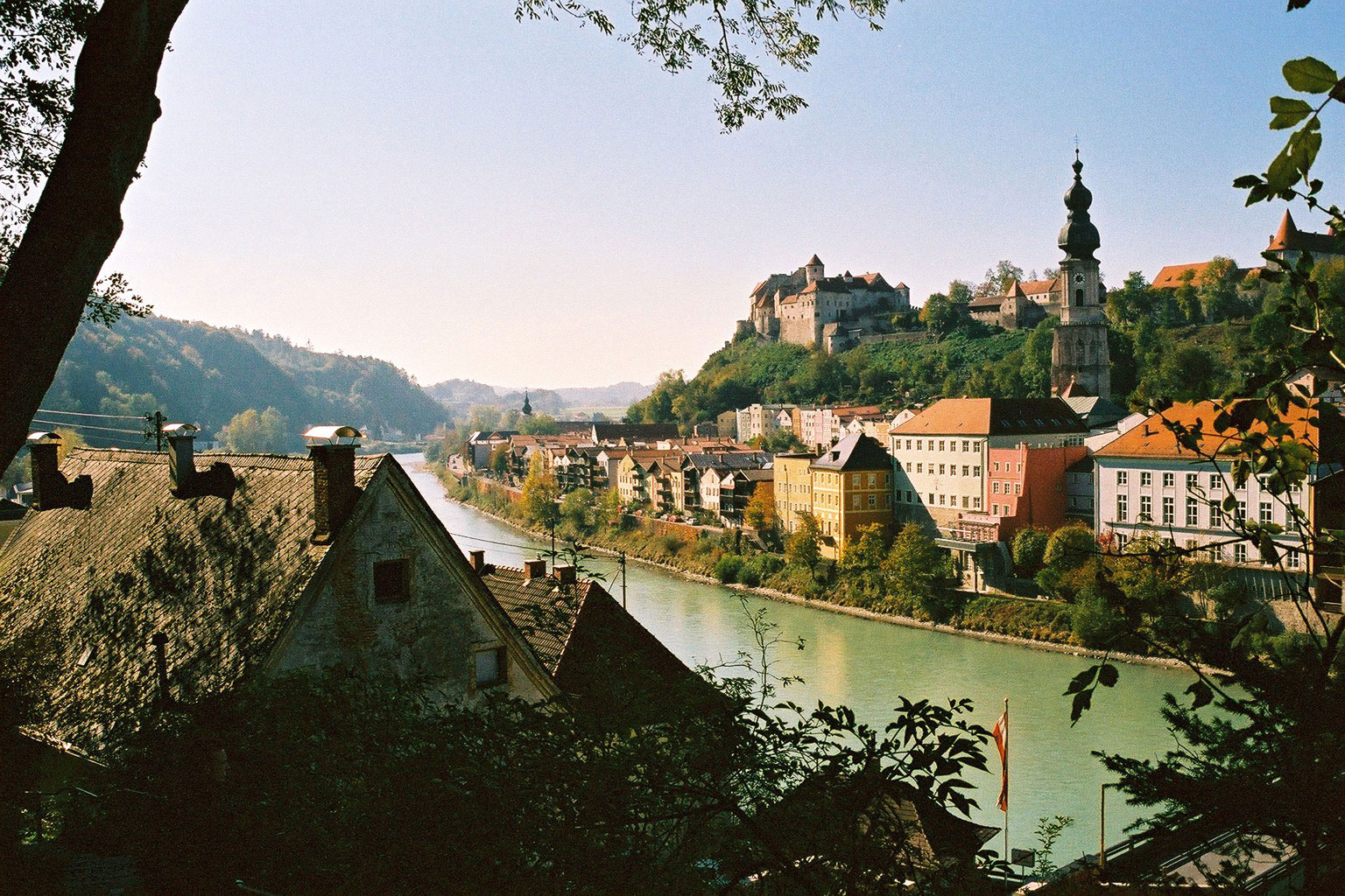 Burghausen, Germany Panoramic view over the river Salzach to town and castle